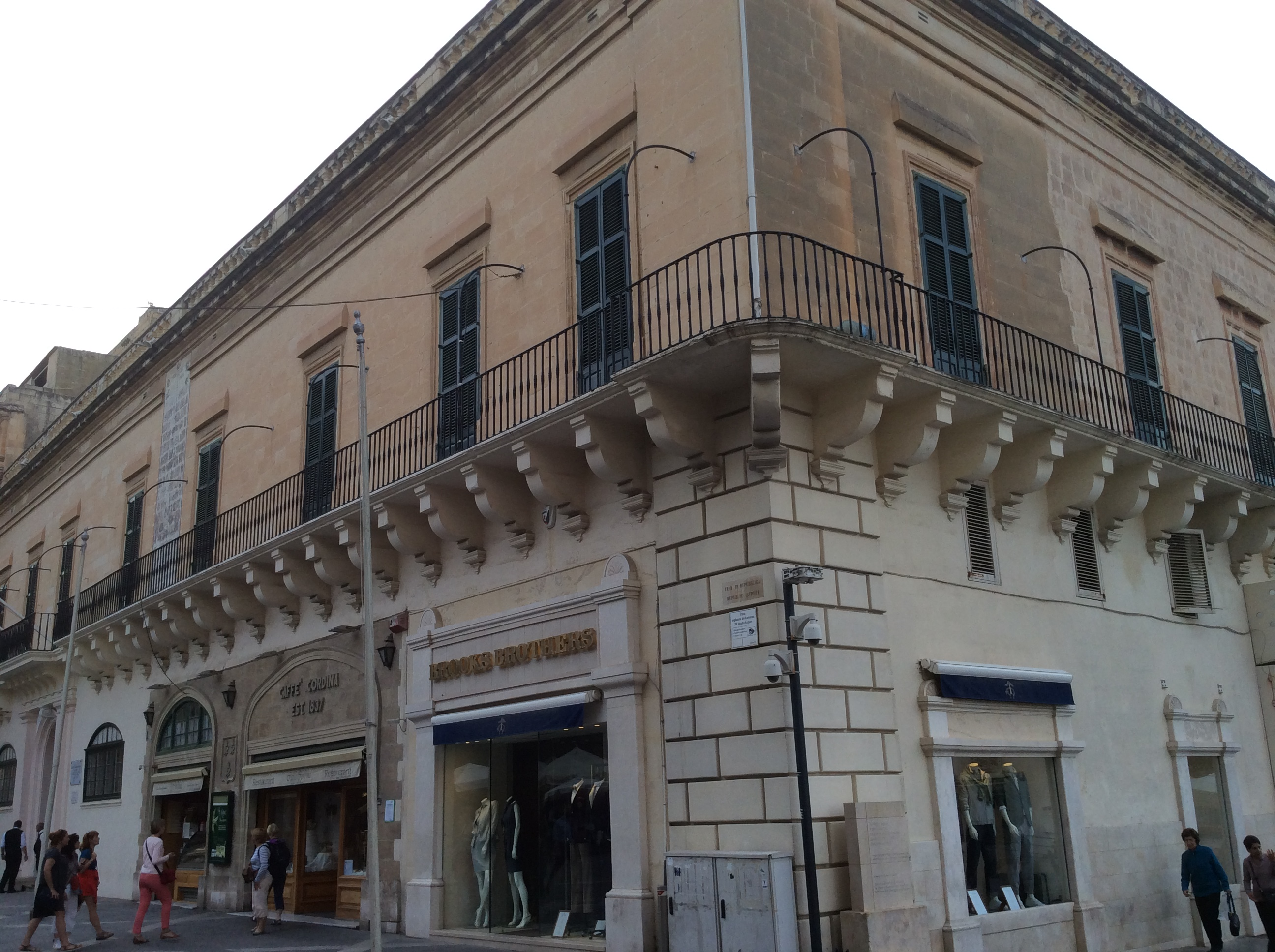 Casa del Commun Tesoro